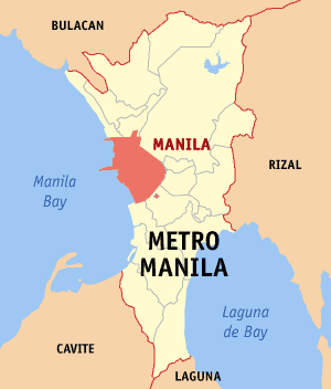 Locator map of Manila in Metro Manila, Philippines.